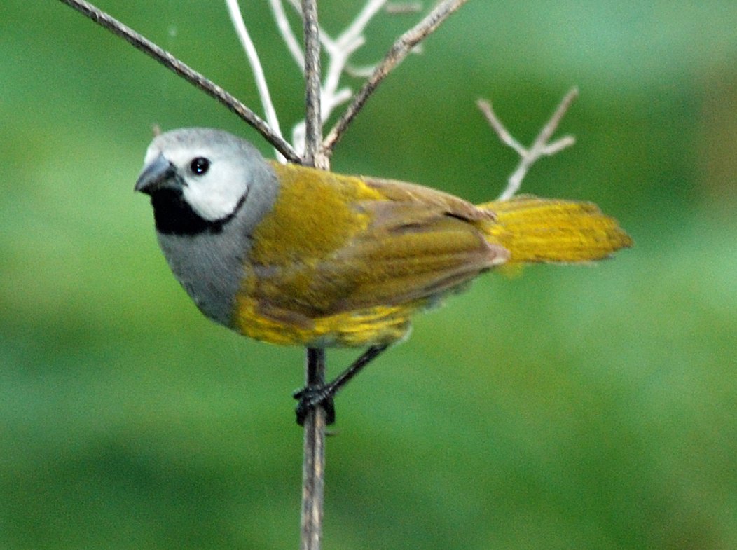 Grey-headed Oliveback, Poli, Cameroon